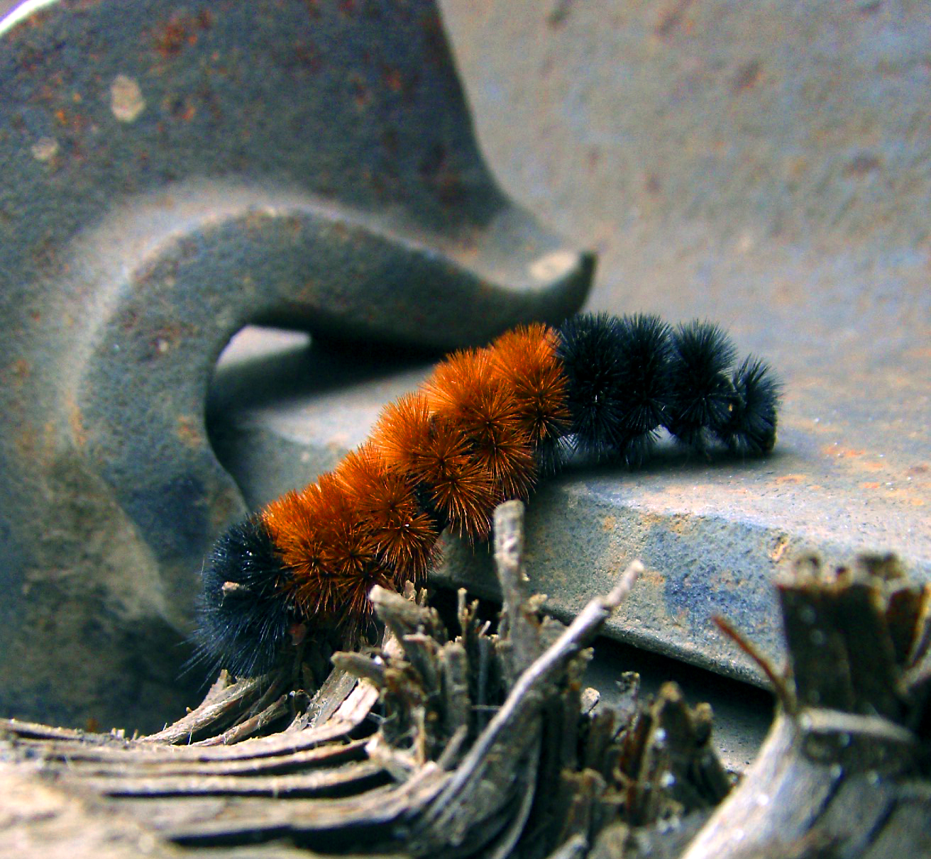 A Woolly Bear caterpillar, moving over railroad tracks